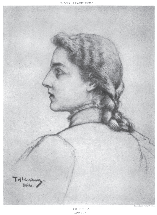 Oleńka by Piotr Stachiewicz